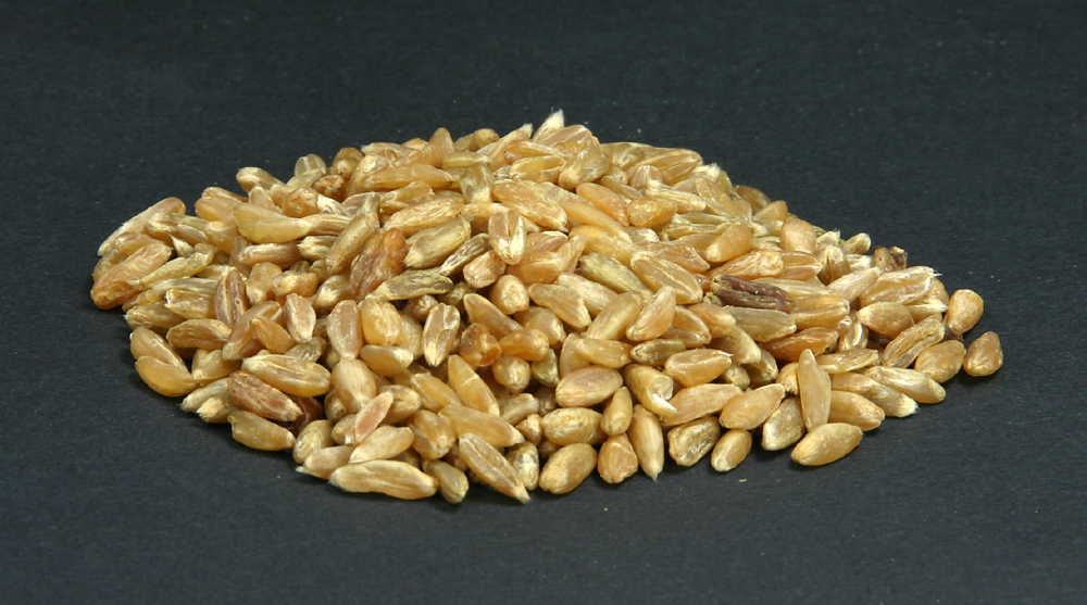 Spelt grains